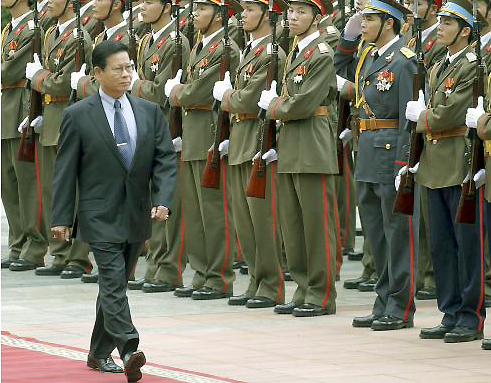 Khin Nyunt, former prime minister of Burma, reviews a Vietnamese honour guard at the Presidential Palace in Hanoi, Vietnam, Monday 09 August 2004. Photo taken by Edward Win.